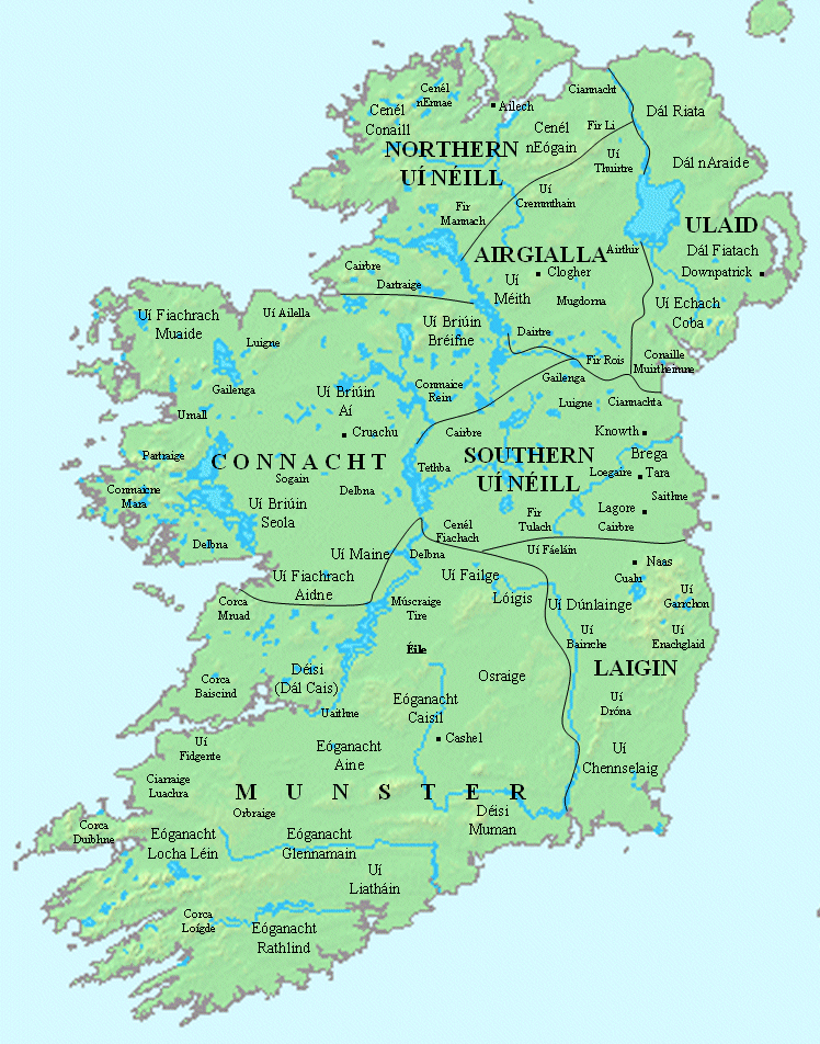 Ireland, early peoples and politics. Redrawn from a map in Duffy's Atlas of Irish History.